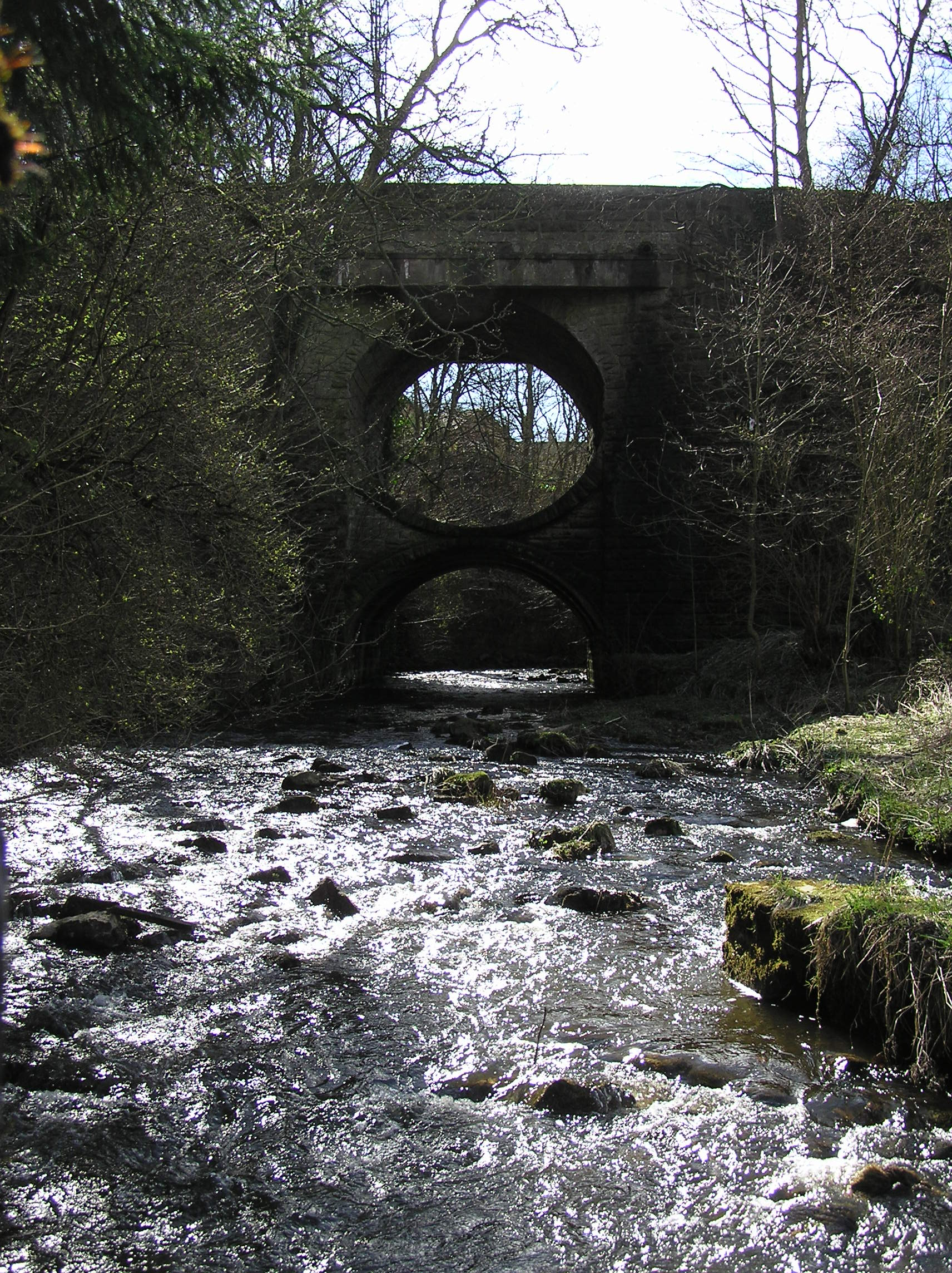 Thomas Telford's bridge over the Bannock Burn in Bannockburn near Stirling, Scotland